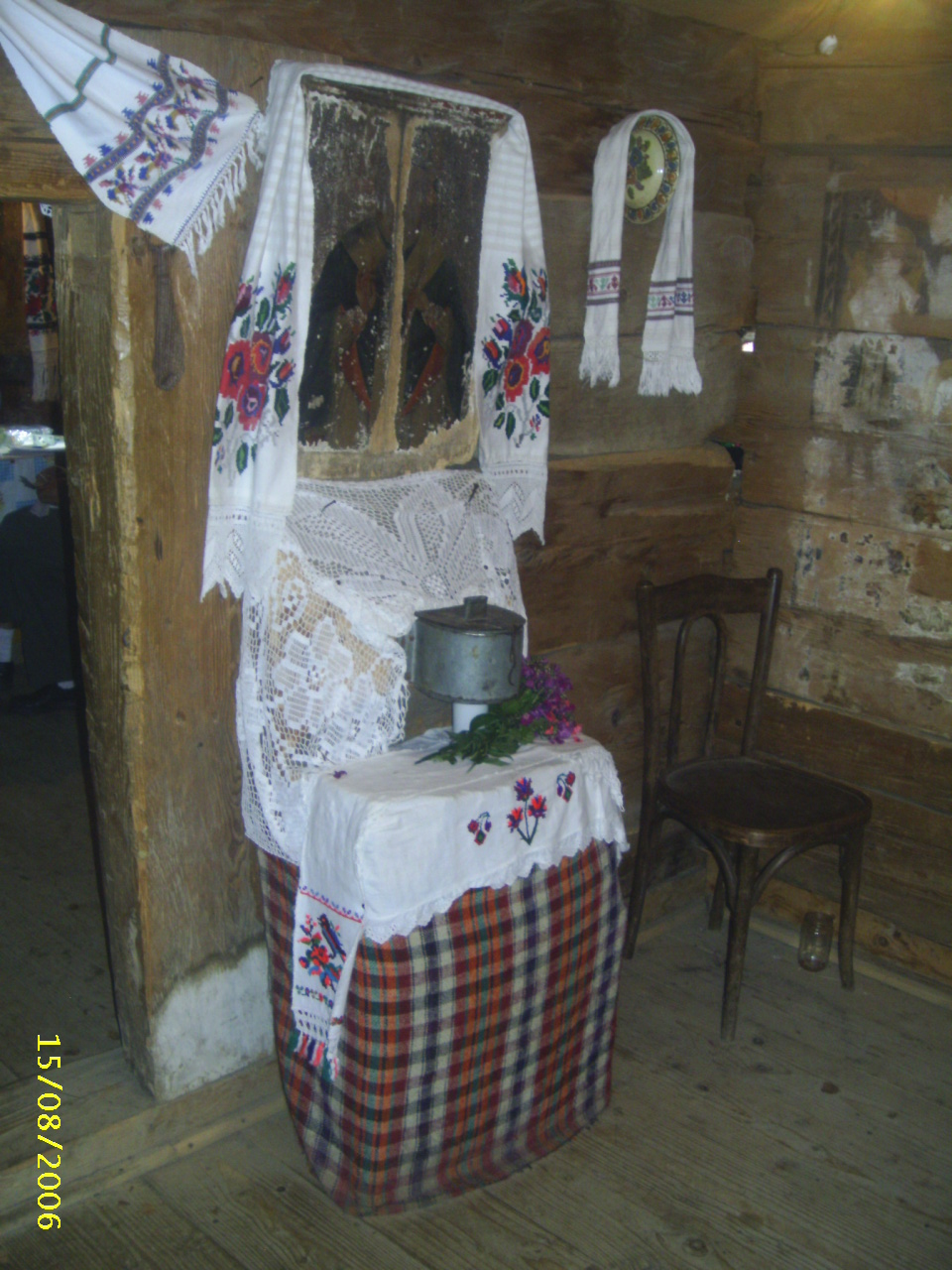 Interior biserica de lemn Manastirea Moisei